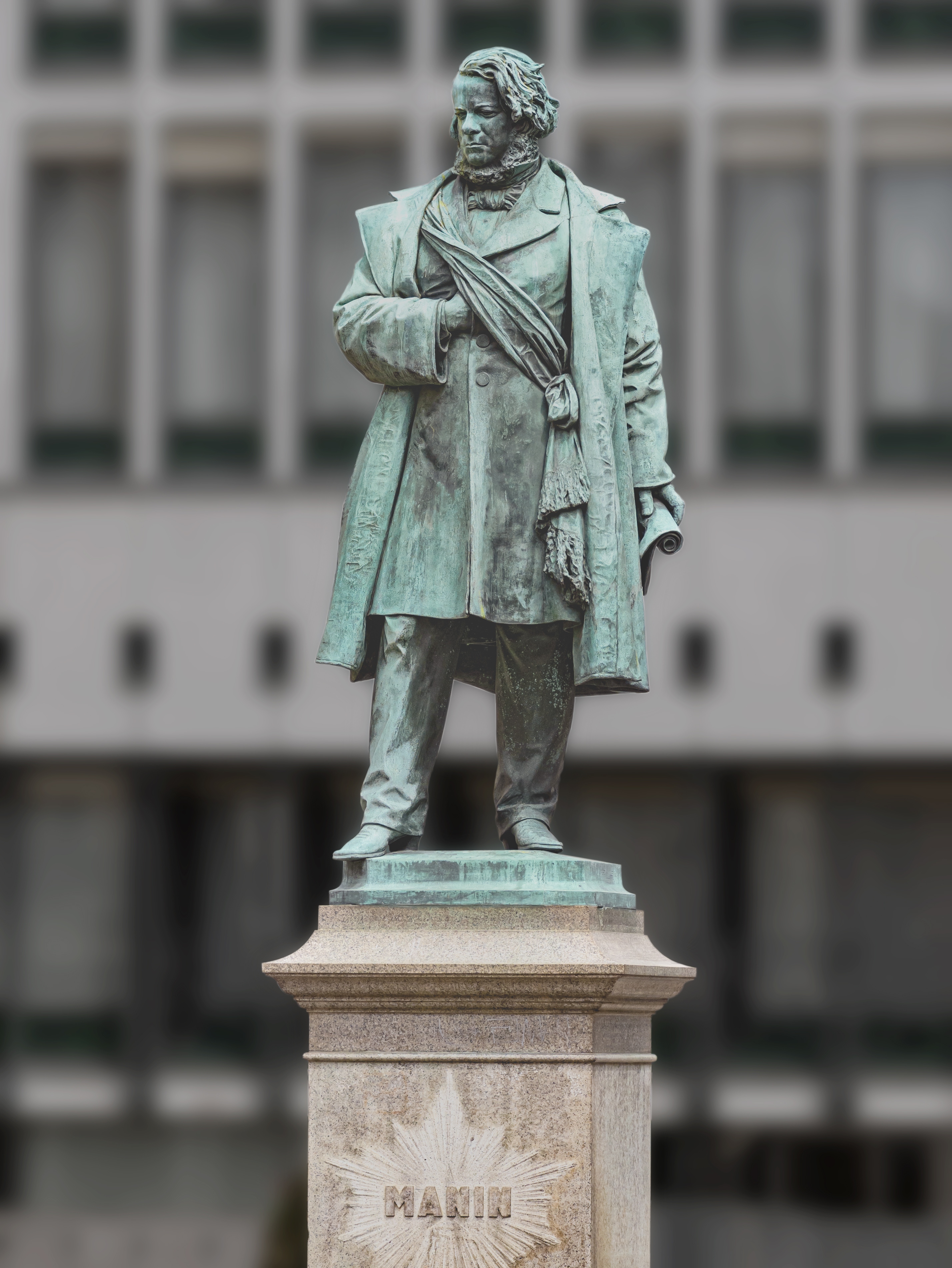 Daniele Manin statue, located Campo Manin in Venice. Bronze of Luigi Borro.